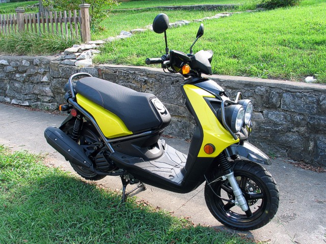 A Yellow Zuma 125 scooter, Taken in Nashville Tennessee September 2008. This image is free to the public.